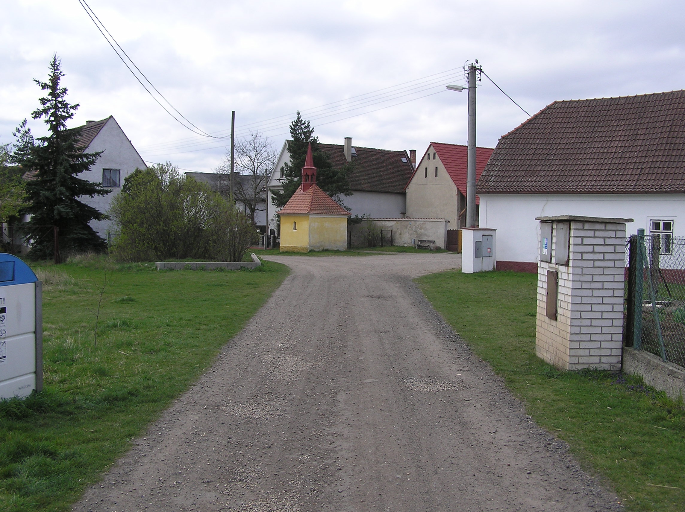 Village square in Dolejší Hůrky